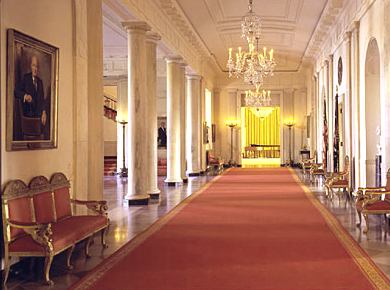 Cross Hall at the White House